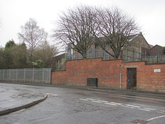 School Street